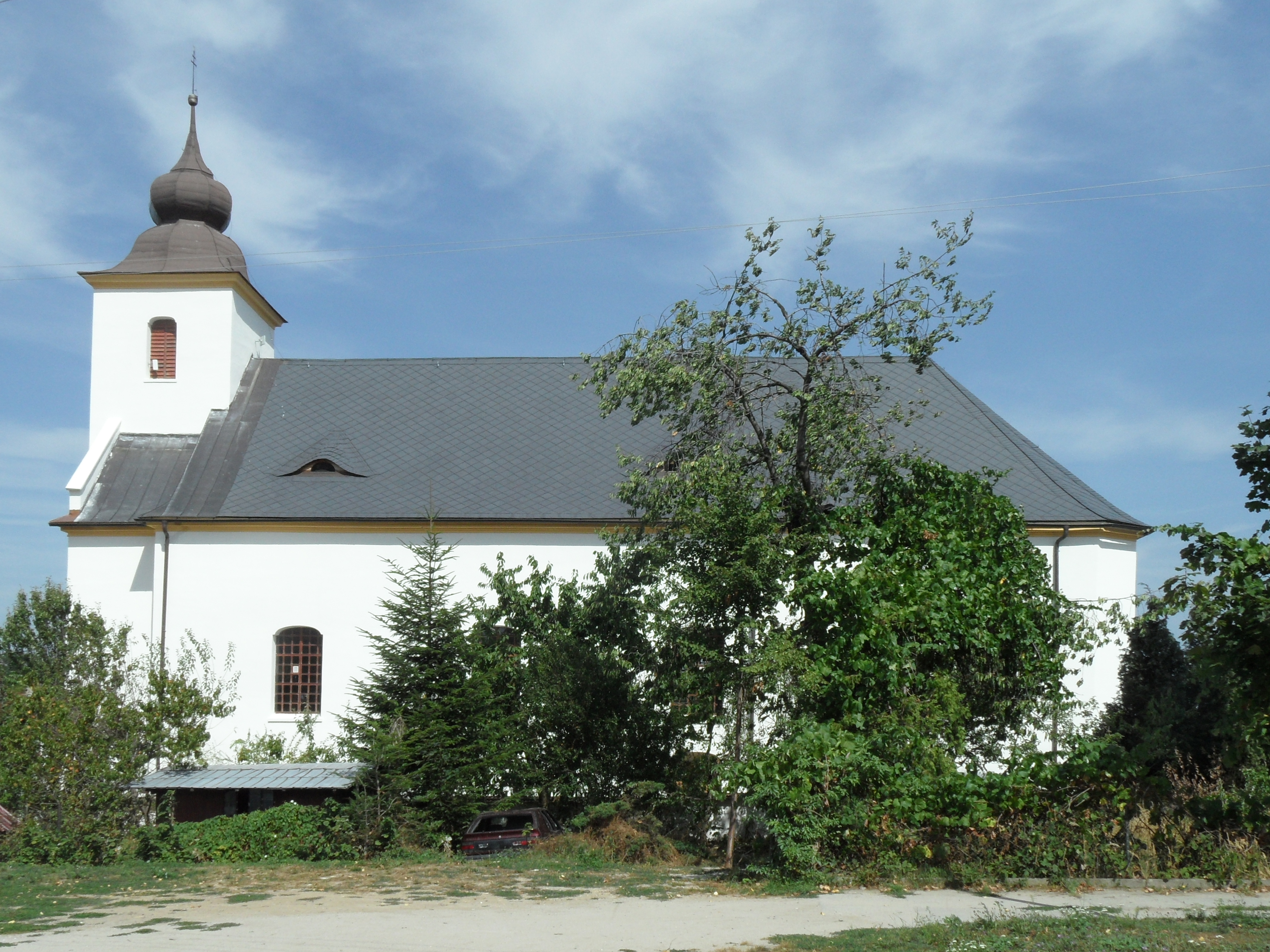 Uhelná A. Church of Saint Catherine, Overview from South-West. Jeseník District, the Czech Republic.